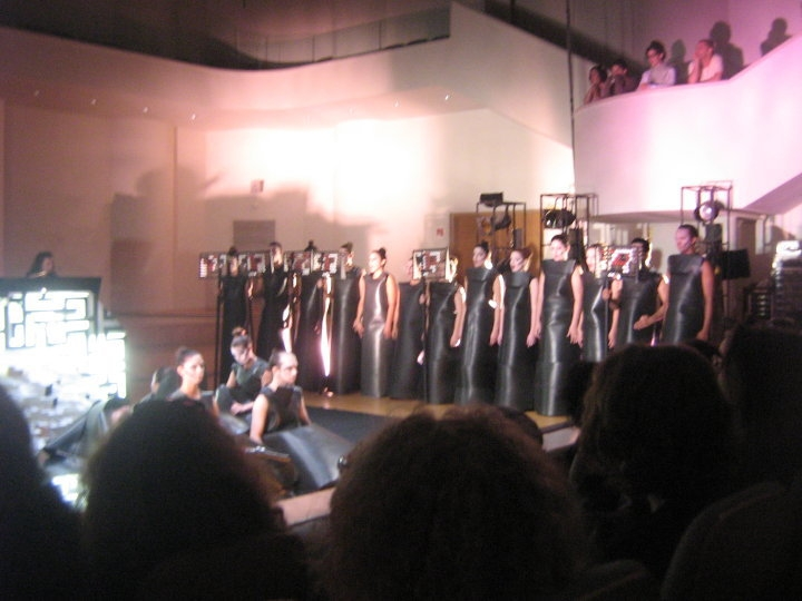 Der Jasager opera performed by the students of the Buchmann-Mehta School of Music in Tel-Aviv University